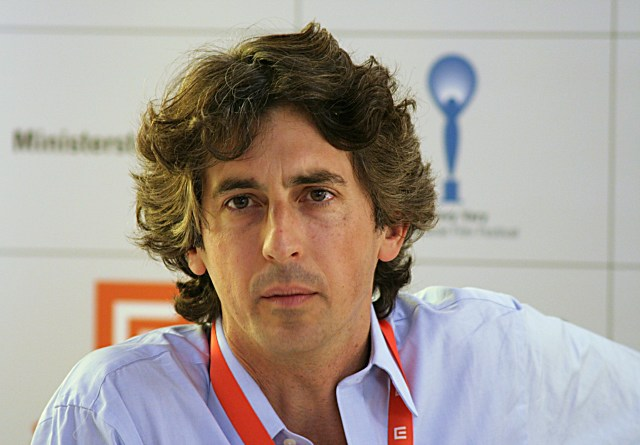 Alexander Payne at Karlovy Vary Internation Film Festival